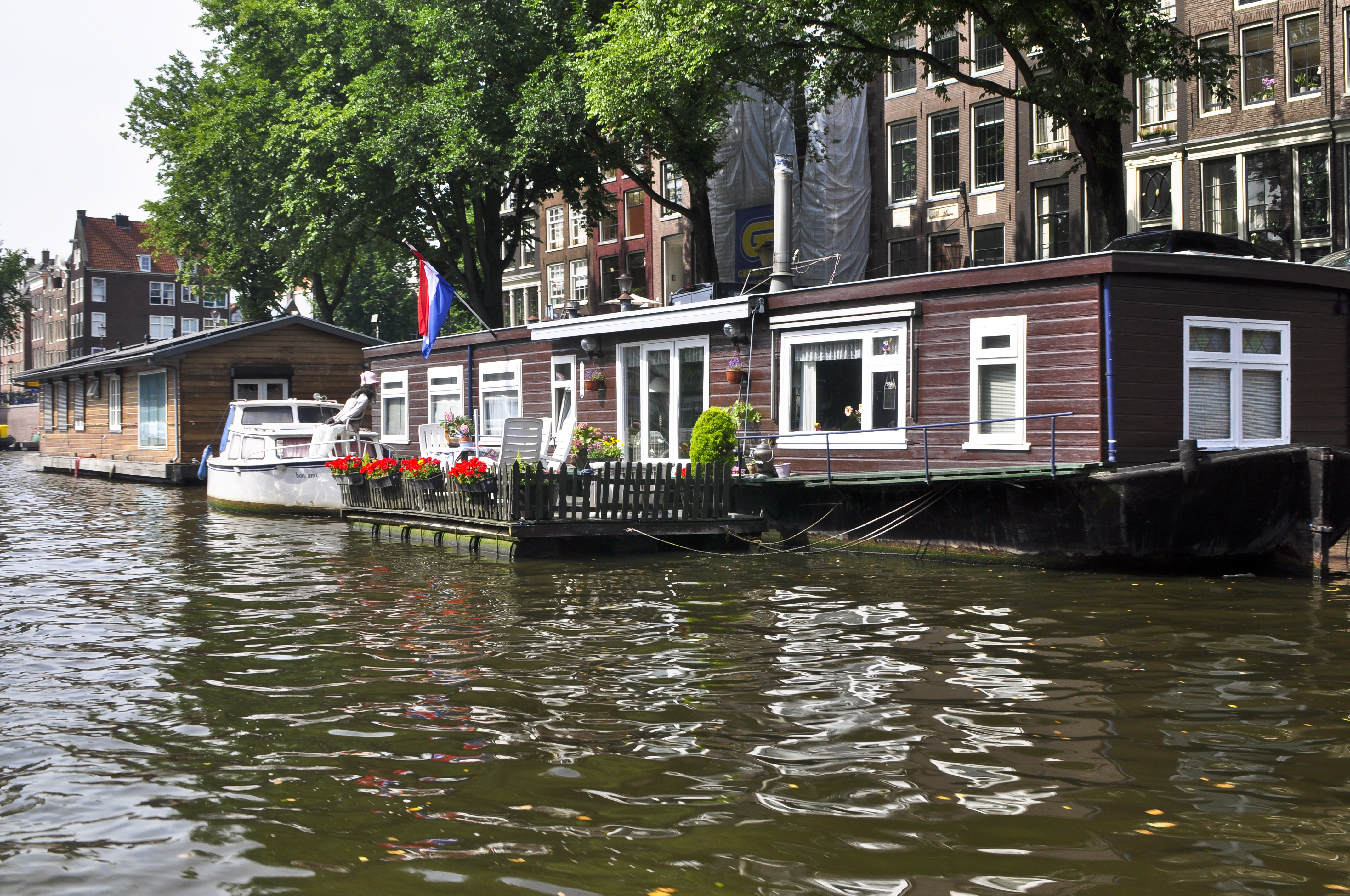 Houseboat Amsterdam